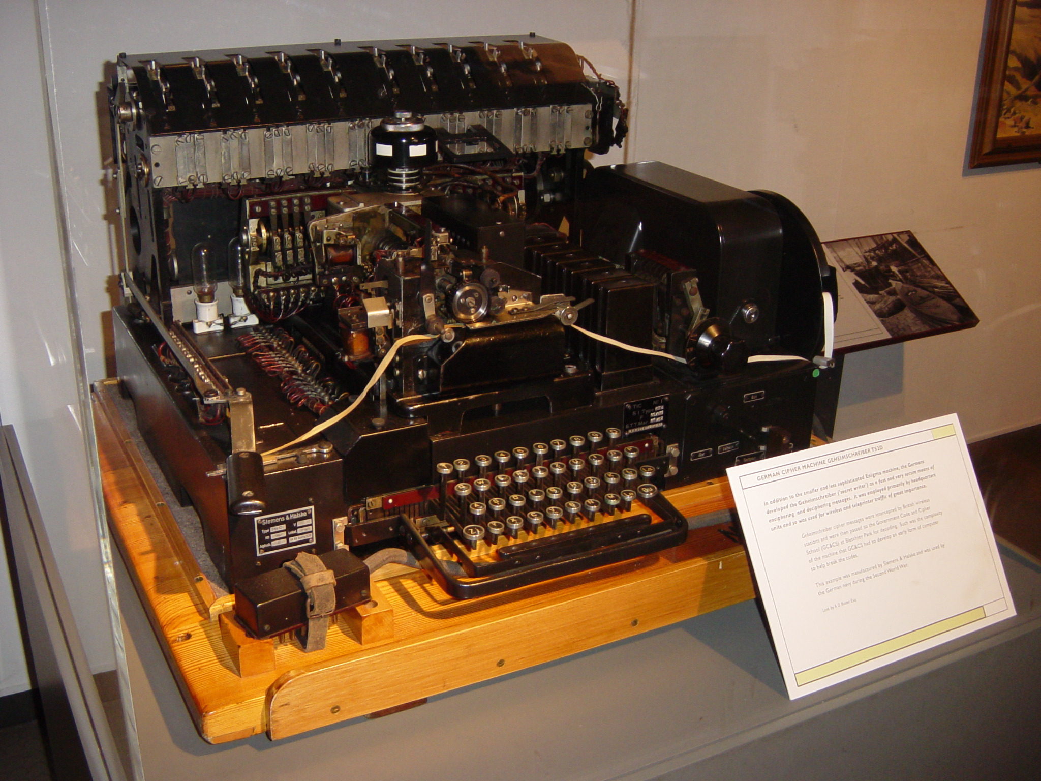 A Siemens and Halske T52D cipher machine on display at the Imperial War Museum, London.